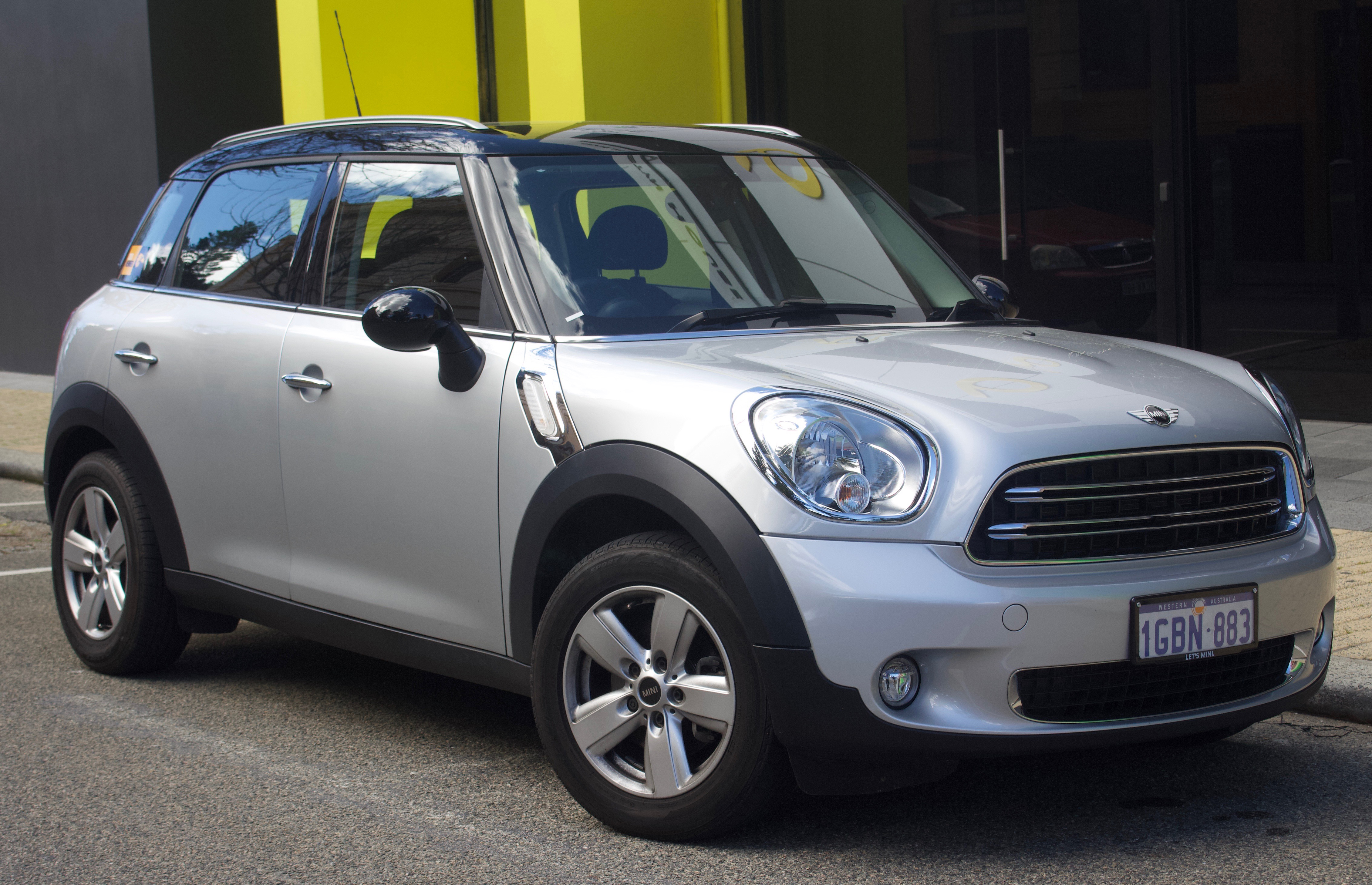 2016 Mini Countryman (R60 LCI) Cooper hatchback. Photographed in Fremantle, Western Australia, Australia.